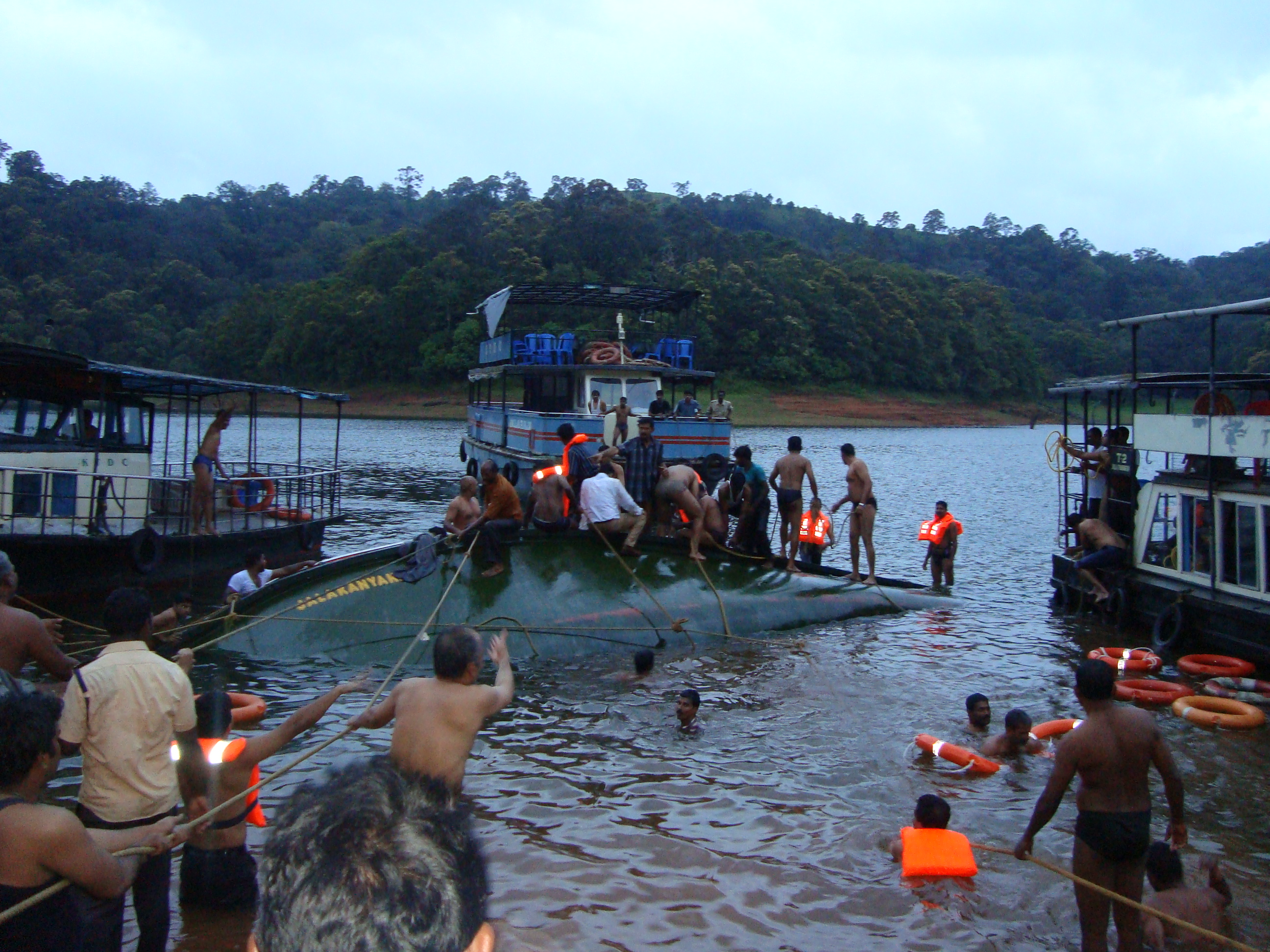 Rescue operations